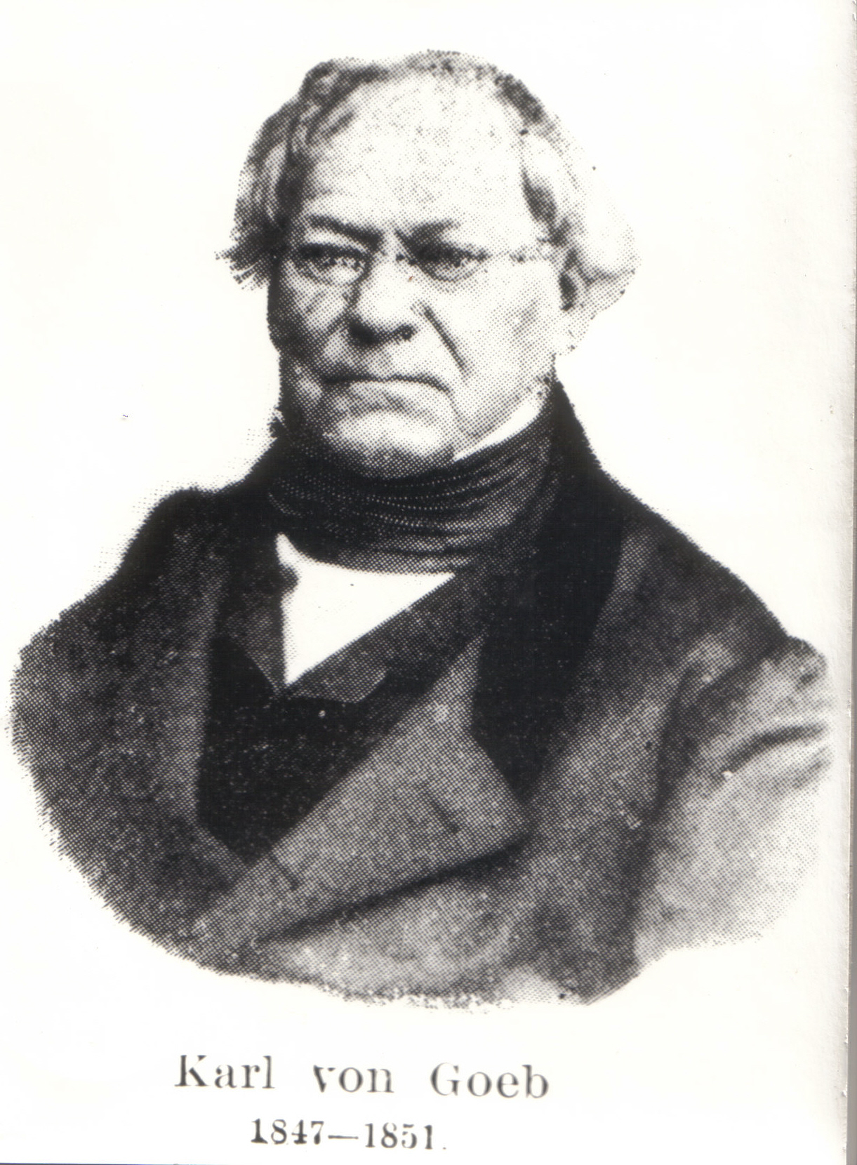 Carl Ritter von Göb